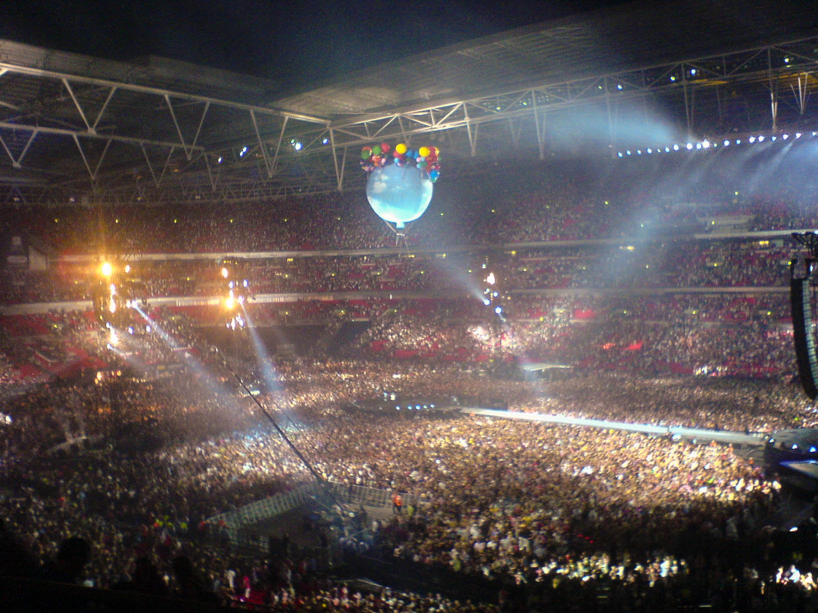 Take That concert at Wembley Stadium.